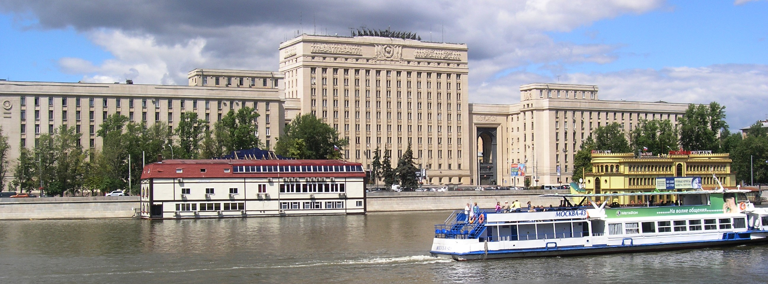 Frunzenskaya embankment, Moscow, headquarter of the Russian Ground Forces